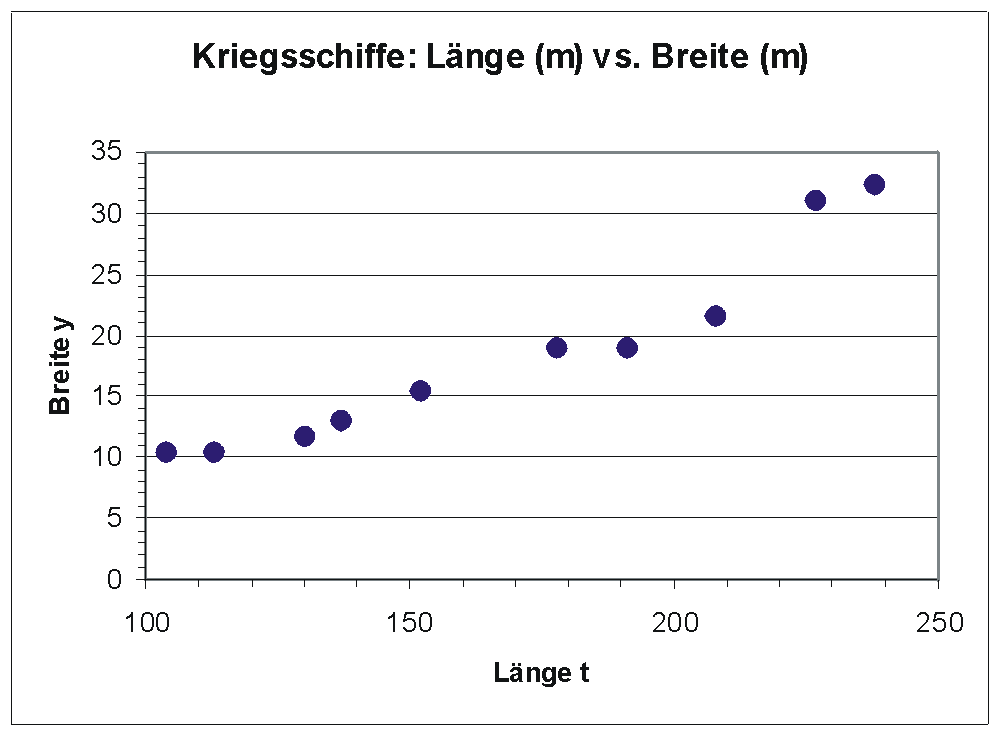 Disperssion grafic of length and wide of 10 ships randomly selected